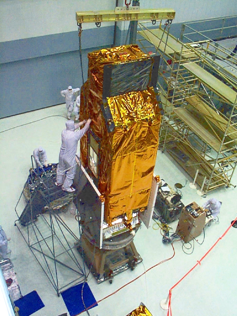 FUSE at NASA/GSFC. (Photo courtesy NASA.)